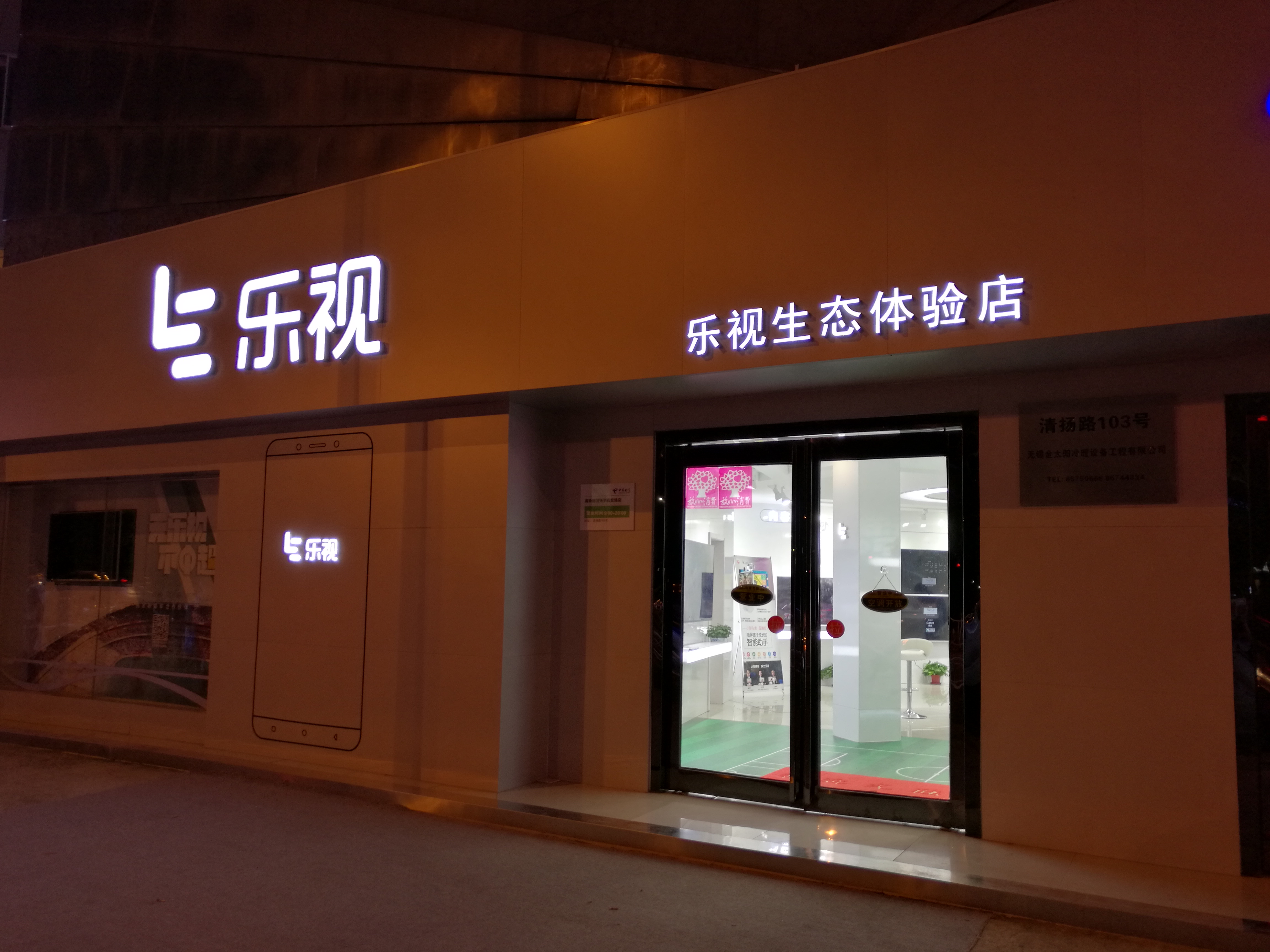 LeEco Shop 1